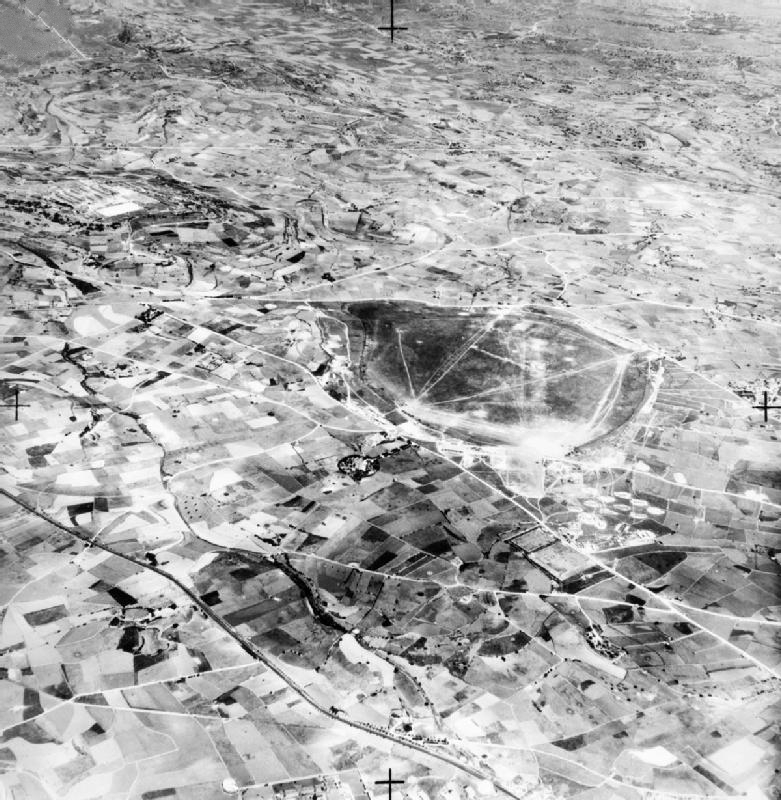 High oblique aerial view of Ta Kali airfield, Malta, taken at 1.700 m (5.000 ft) from the south-east.